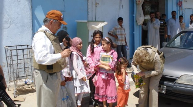 US Congressional delegation meets children in a now secure and prosperous Hadithah Iraq